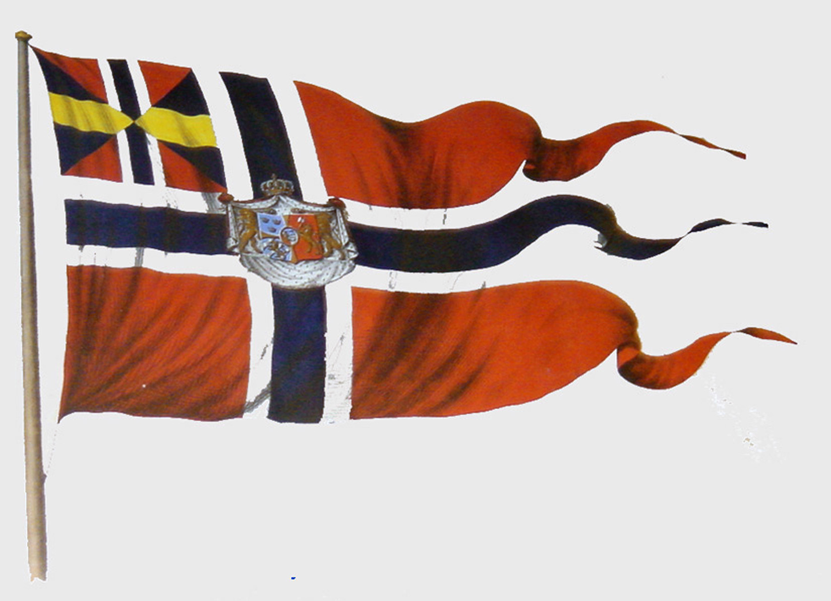 Royal Norwegian flag exhibited in the Naval Museum, Horten.